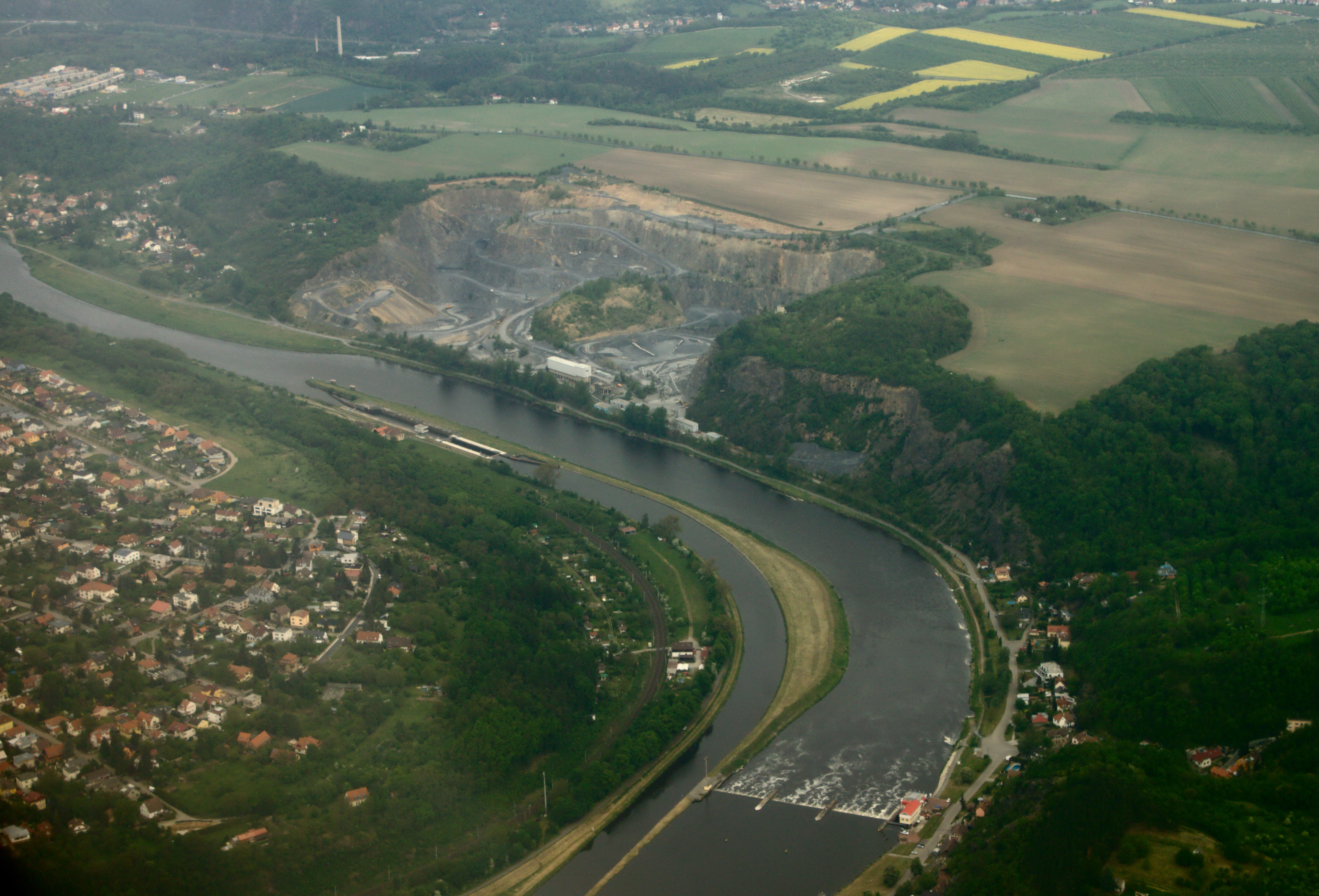 Aerial view of the Vltava River valley between Roztoky and Klecany, Central Bohemia, CZ